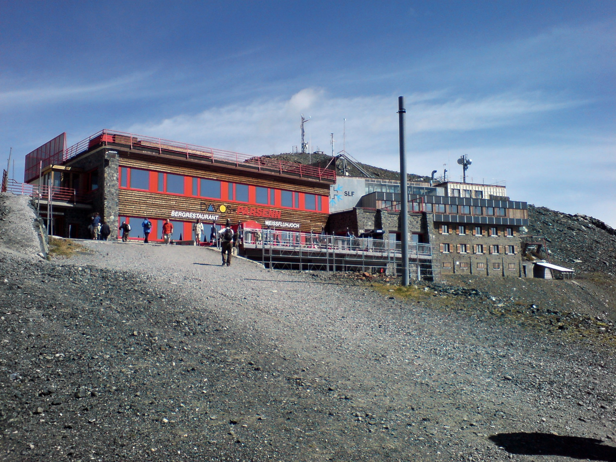 Weissfluhjoch above Davos